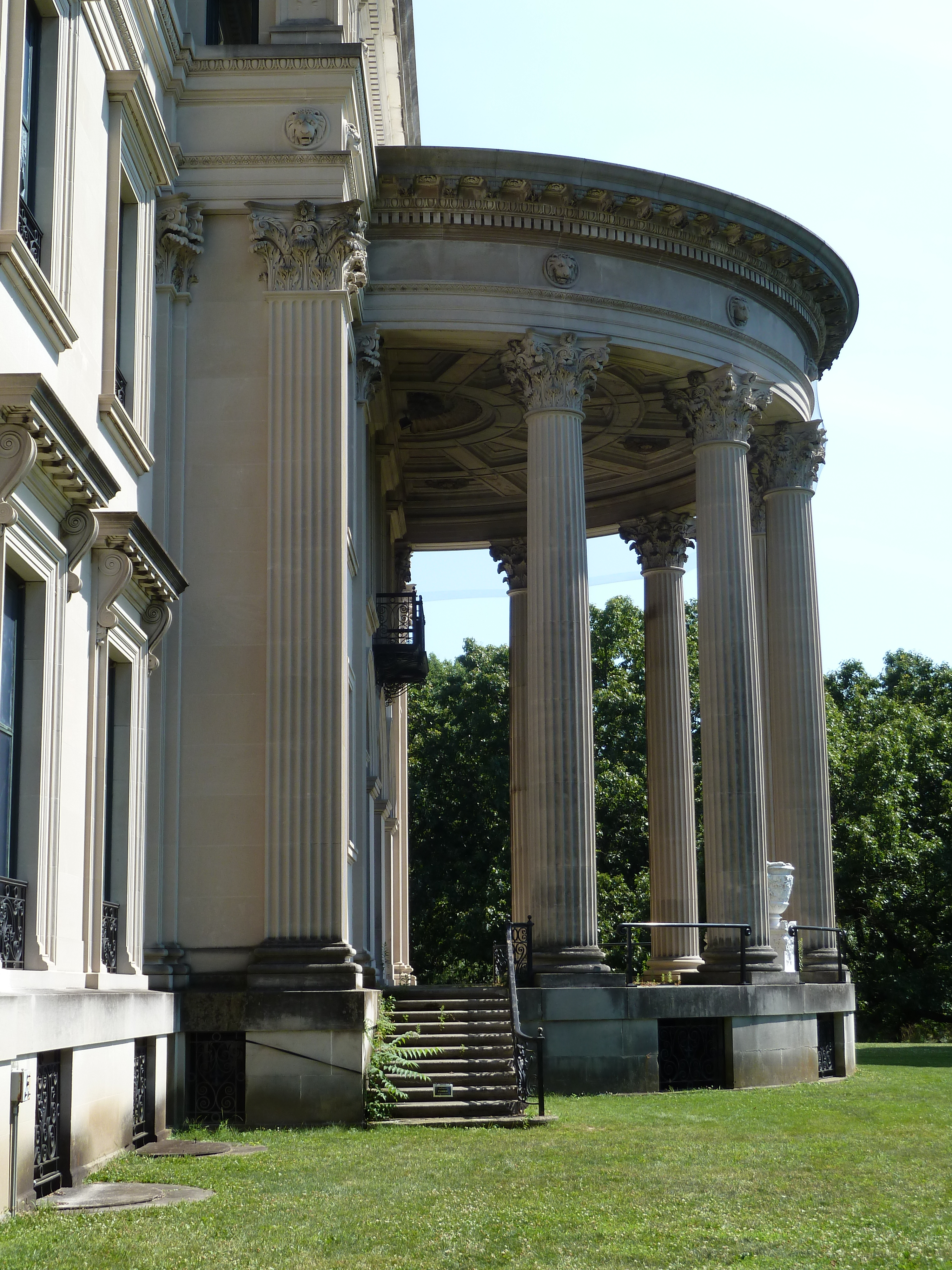 The Vanderbilt Mansion and gardens - at the Vanderbilt Mansion National Historic Site - in Hyde Park, New York. Designed for Frederick W. Vanderbilt (1856–1938) by McKim, Mead & White in the Beaux-Arts style, and built between 1896–1899.